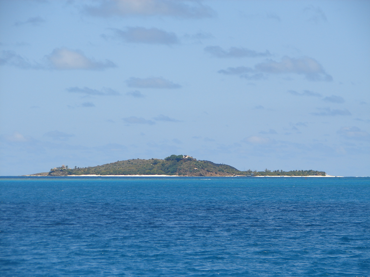 Necker Island, British Virgin Islands